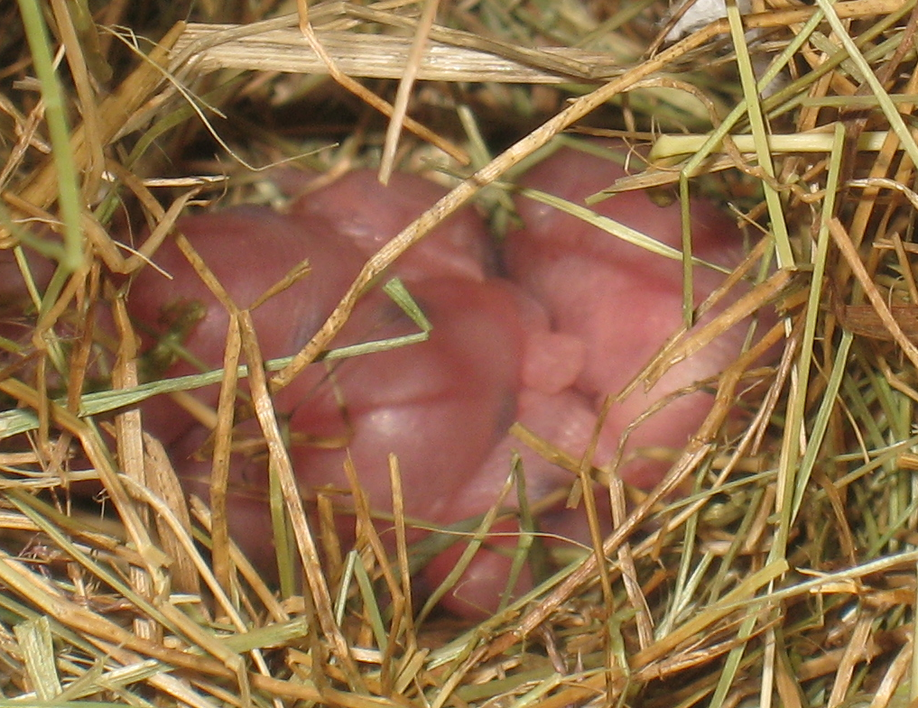 Roborovski litter in their nest